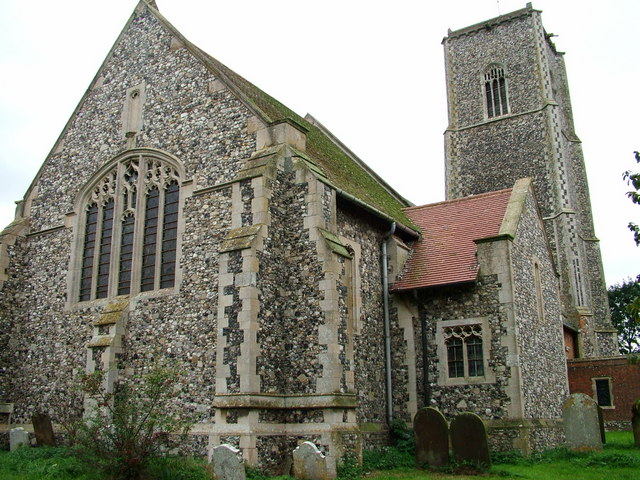 Church of St Edmund in Kessingland, Suffolk, England. A Grade I listed medieval church.